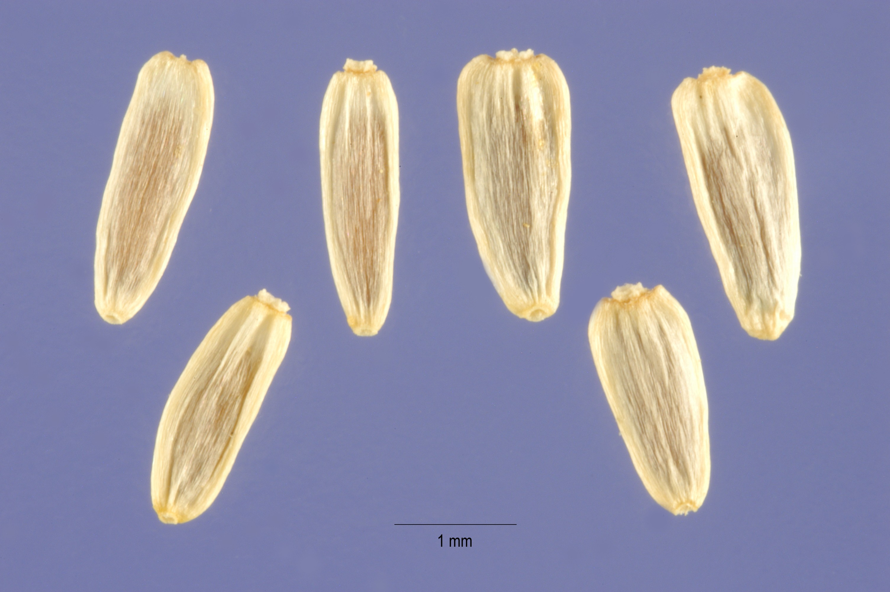 Western Yarrow. Seeds. From Nevada, USA.